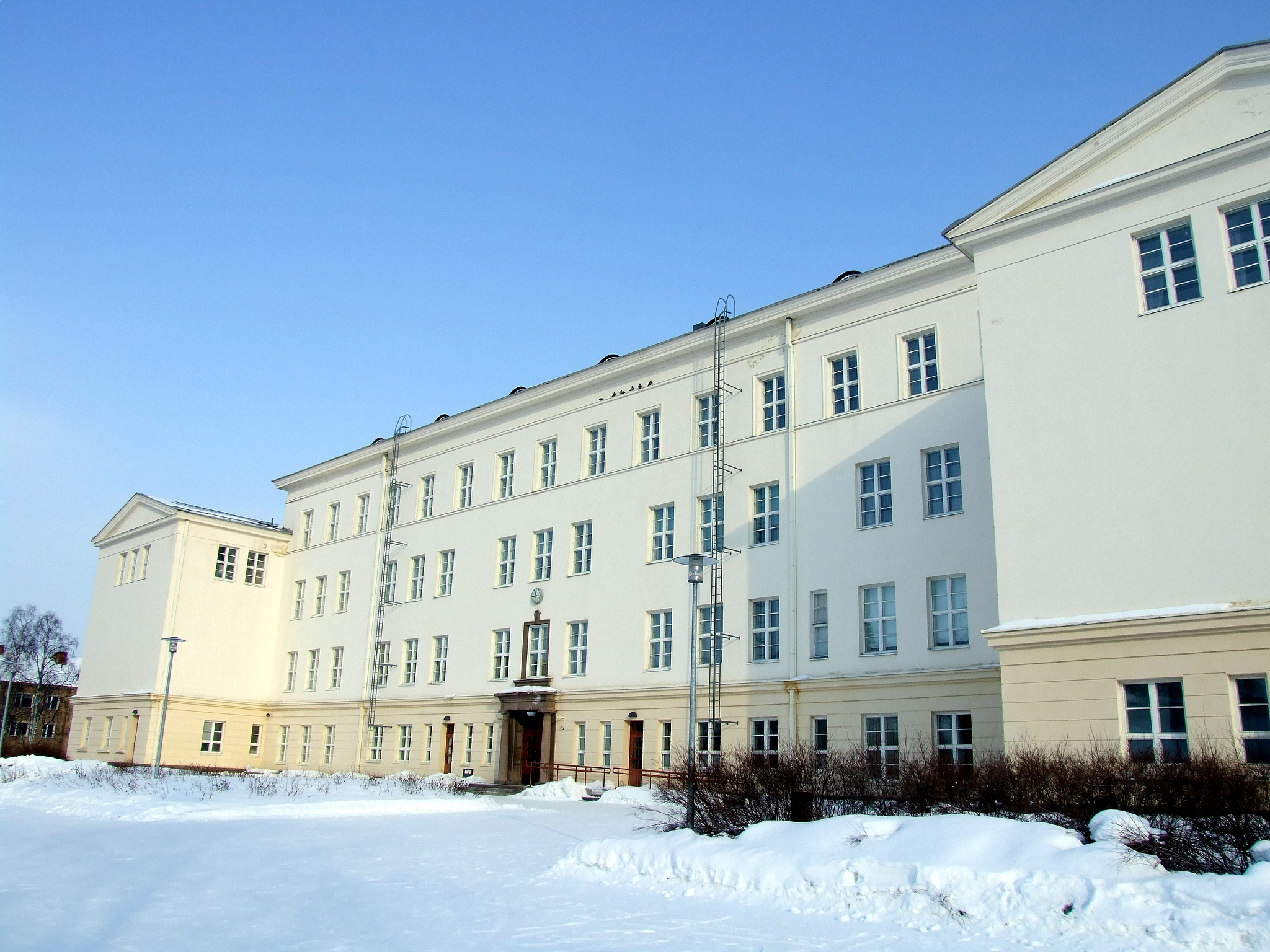 Kemin Lyseon Lukio upper secondary school in Kemi, Finland